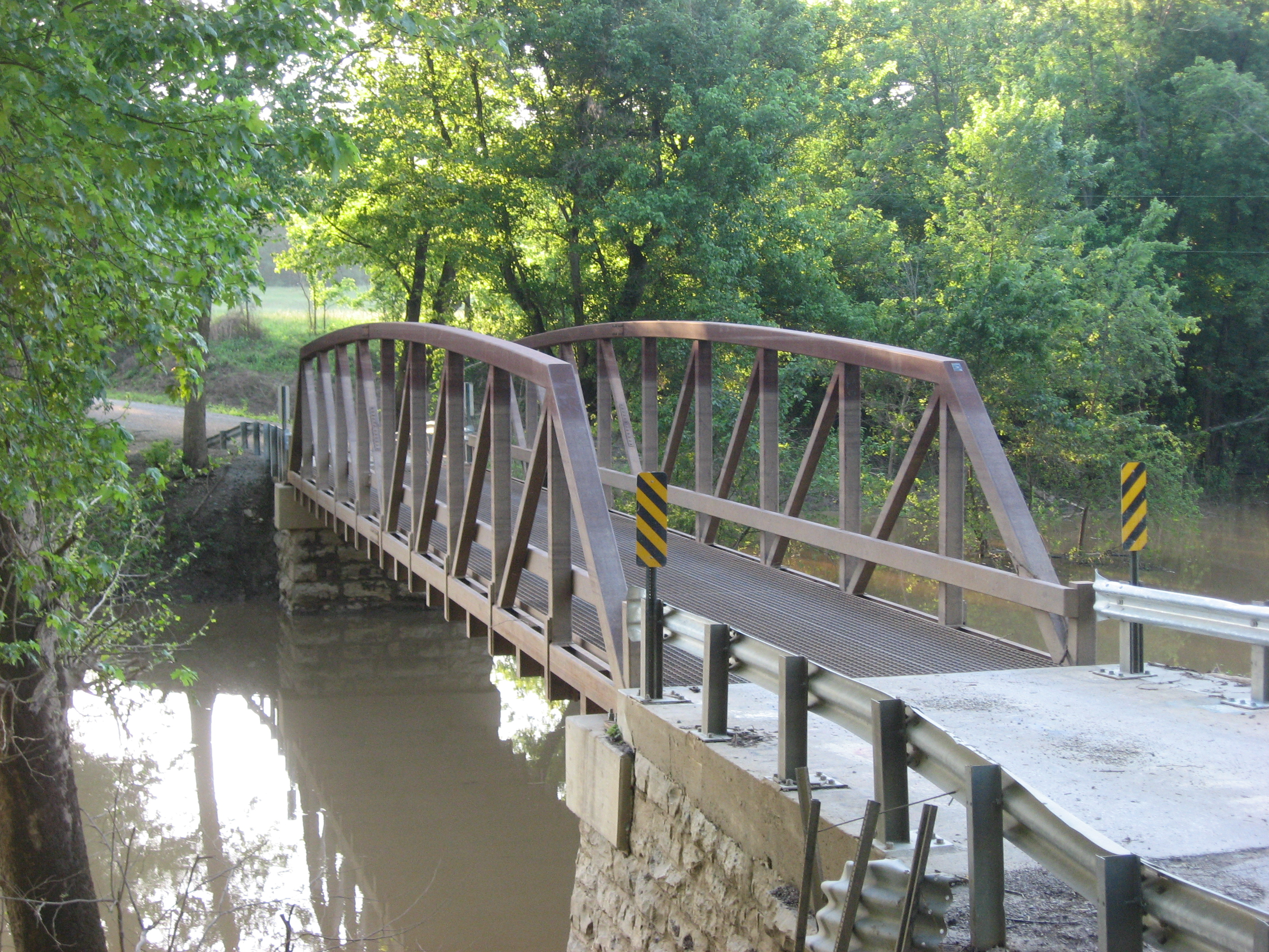 Southern (downstream) side and eastern end of the Lickford Bridge, which carries Lickford Bridge Road over Indian Creek north of New Amsterdam in Washington Township, Harrison County, Indiana, United States. It was built in 1907. Note the dark line near the tops of the trusses: at this location, little more than a mile from the Ohio River, Indian Creek is prone to significant flooding, and the bridge was almost completely submerged a short time before this photograph was taken.